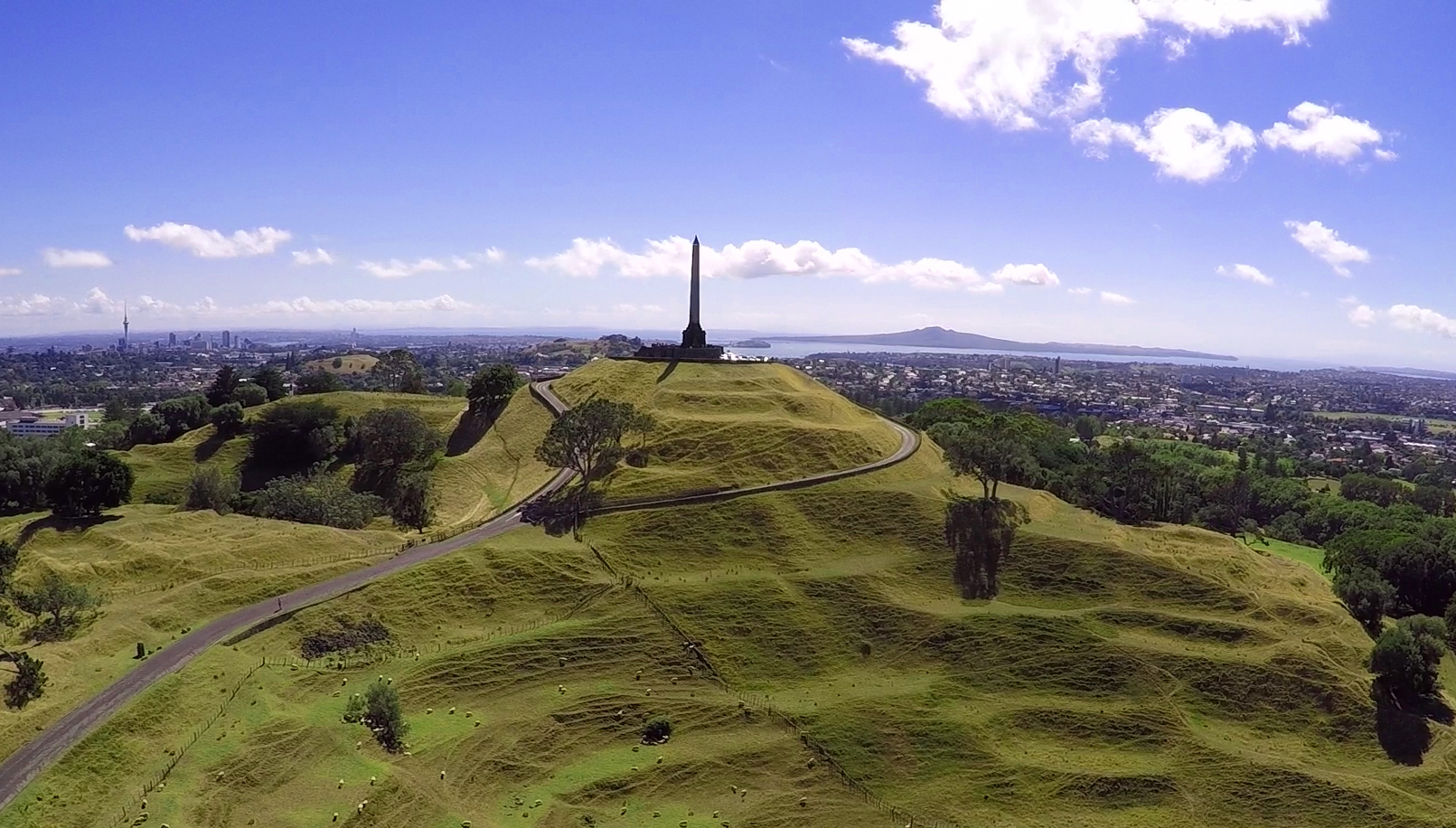 Aerial shot of One Tree Hill with Auckland City in the backdrop.